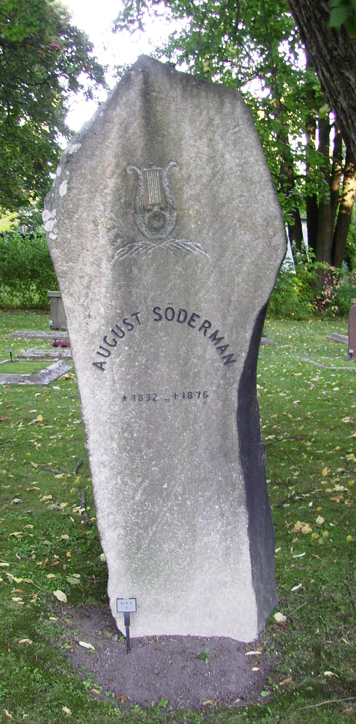 Picture of August Söderman's grave at Norra begravningsplatsen in Solna